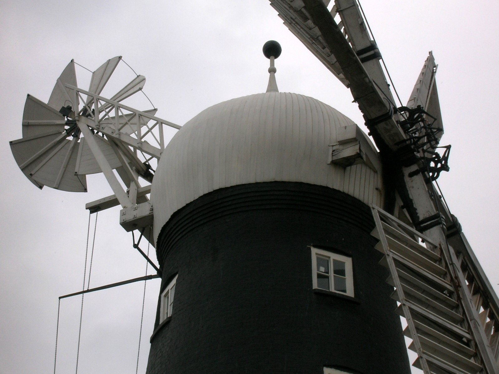 Alford Mill machinery, Alford, UK